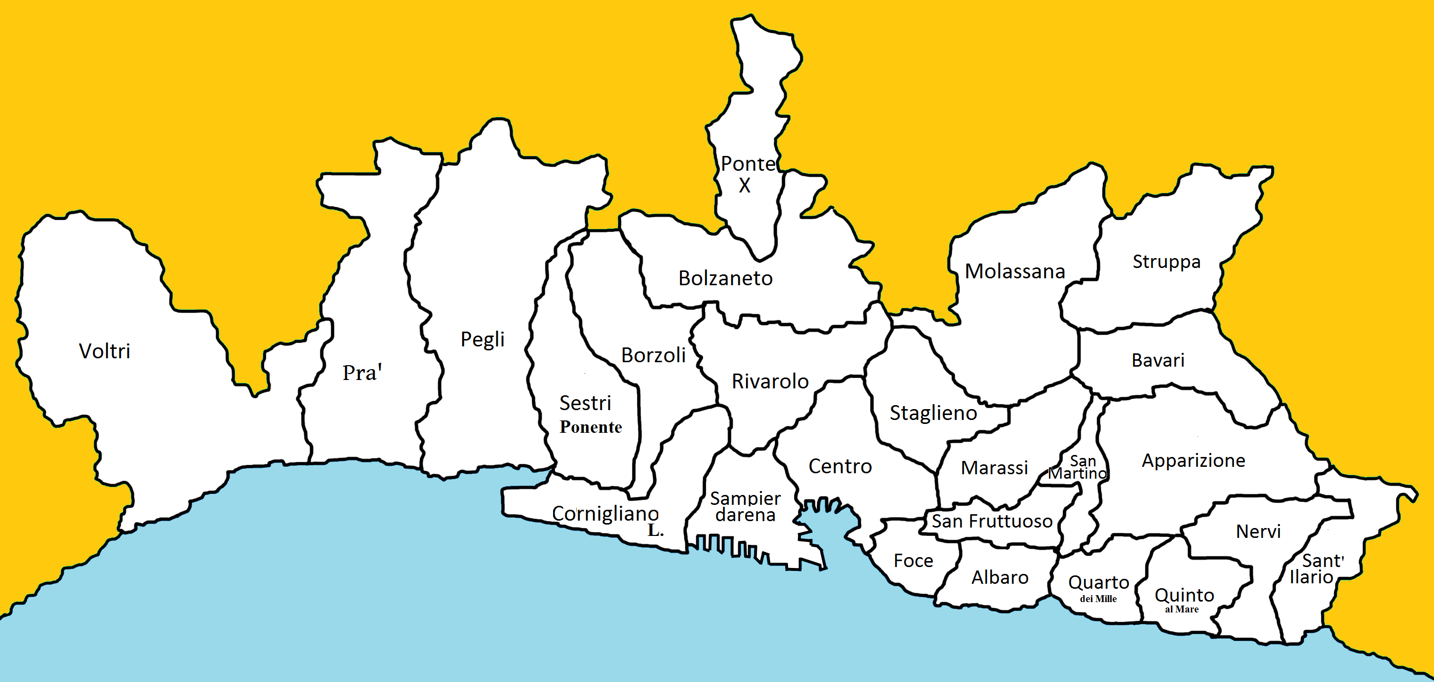 Quarters of Genoa